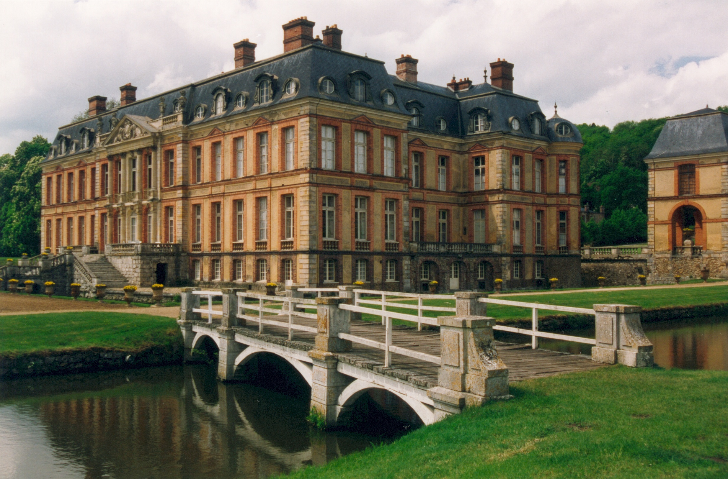 The Château de Dampierre, Dampierre-en-Yvelines, France, eastern aspect